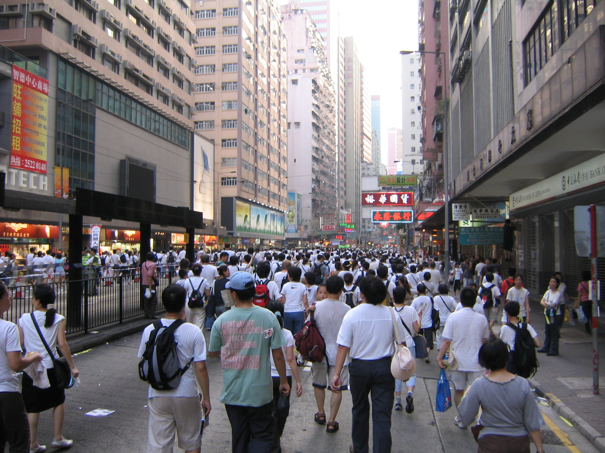 I took this photo at that day